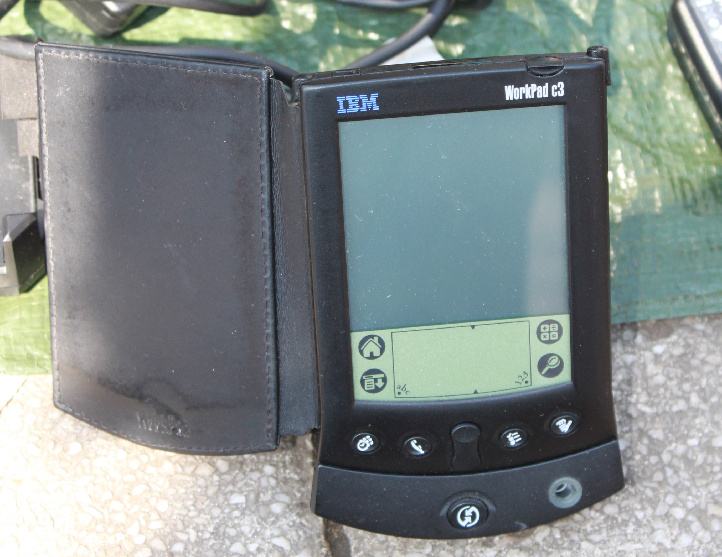 IBM Workpad c3 IBM's Workpad series was nearly identical to PDAs V/Vx from Palm . The main difference were color and logo on the casing.